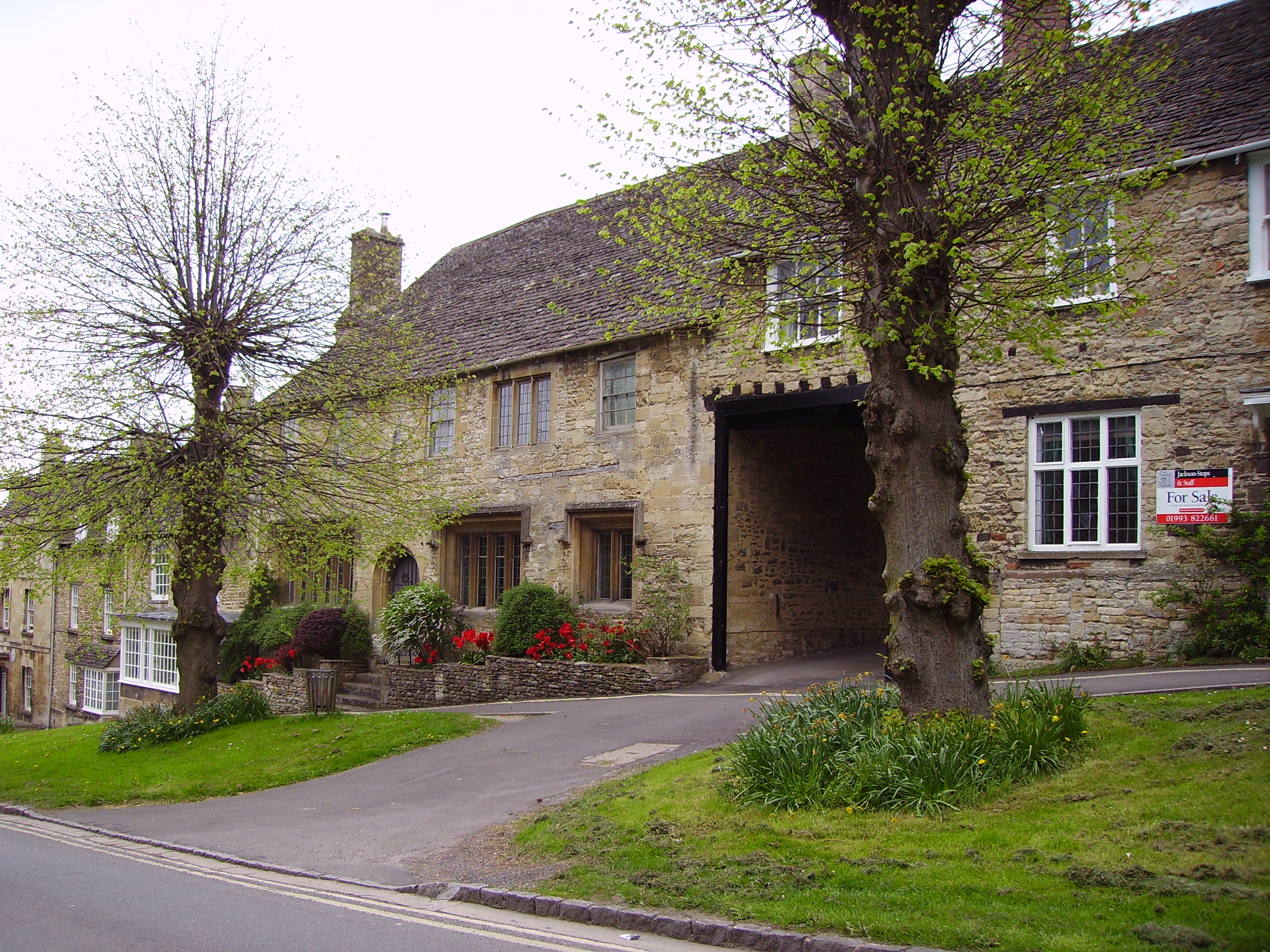 High Street, Burford, Oxfordshire